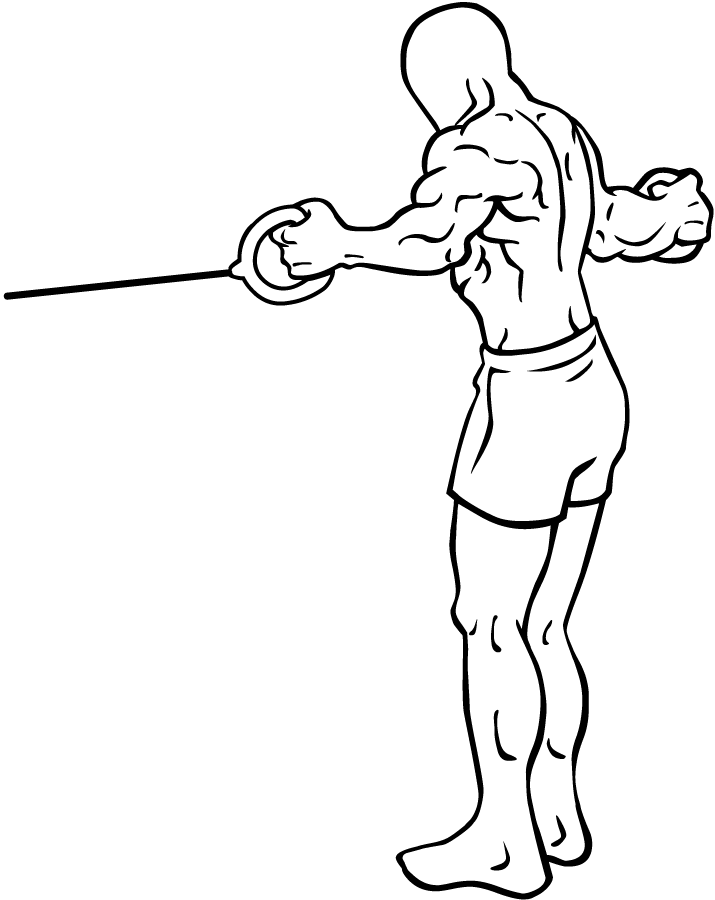 an exercise of shoulders